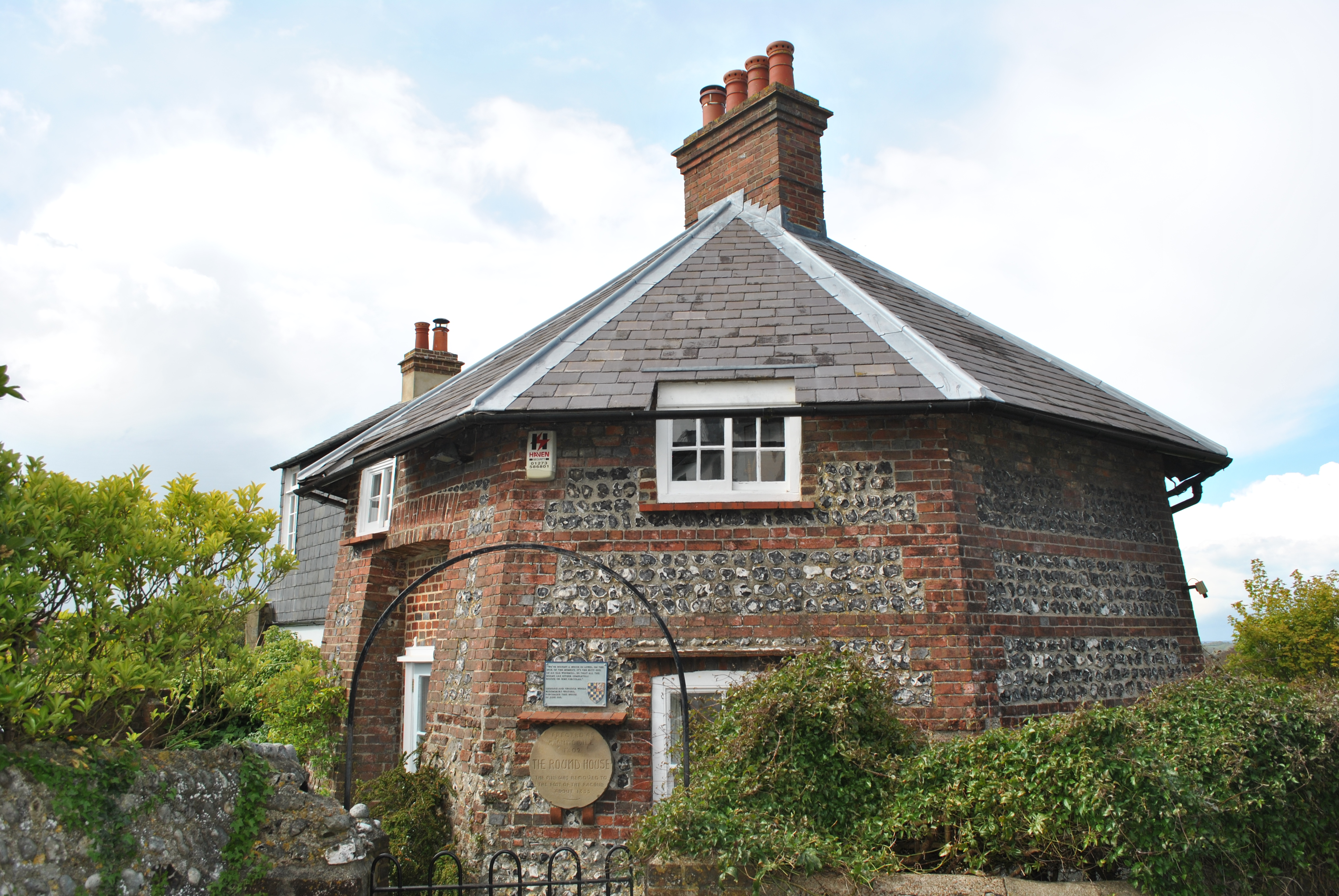 The Round House, Lewes, 2017, Originally published in Queer Places, Vol. 2.1: Retracing the Steps of LGBTQ people around the World